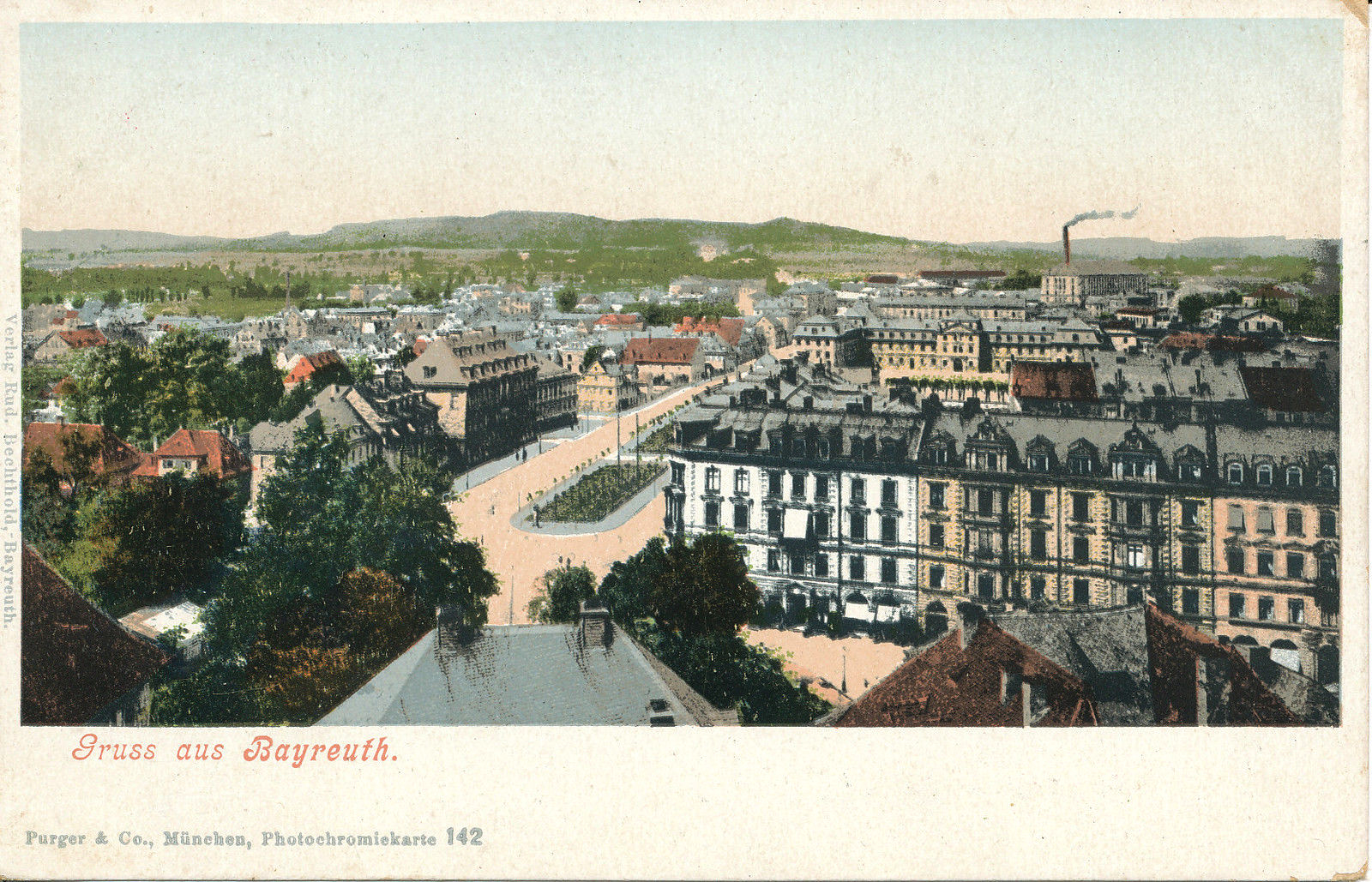 Postcard "Greetings from Bayreuth": Historic view of the Luitpoldplatz as seen from the Castle Church tower.